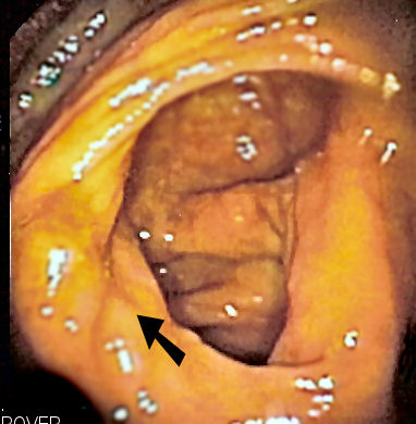 Endoscopic image of cecum with ileocecal valve in foreground. Released on permission of patient into public domain. -- Samir धर्म 07:33, 16 July 2006 (UTC) Category:Endoscopic images